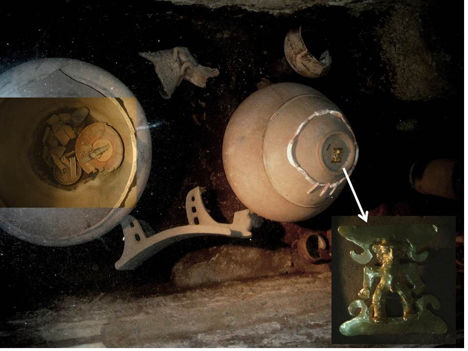 Burial found at Museo El Ceibo, Ometepe, Nicaragua.